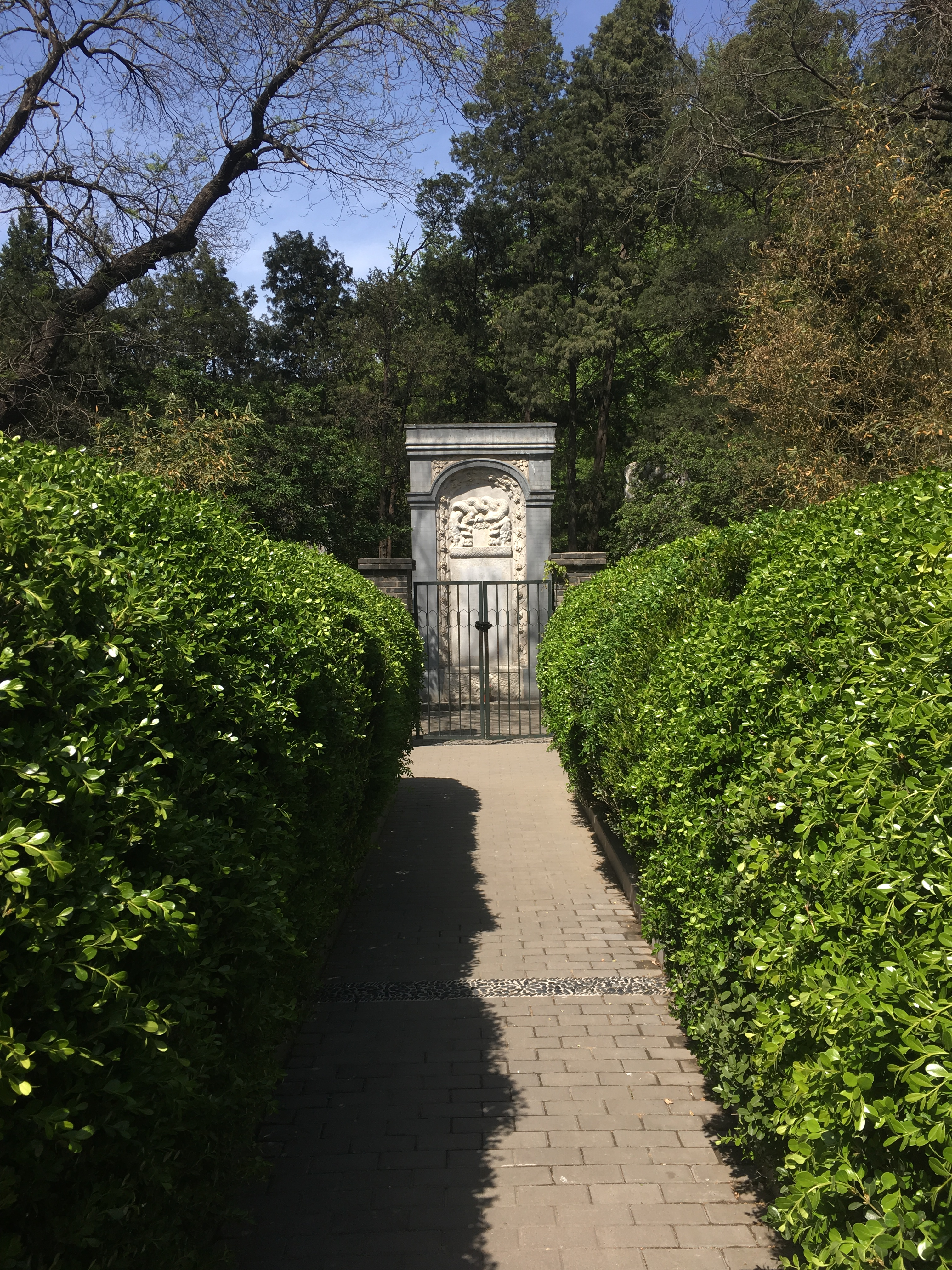 Matteo Ricci's final resting place (Zhalan Cemetery) in Beijing, shot in 2017